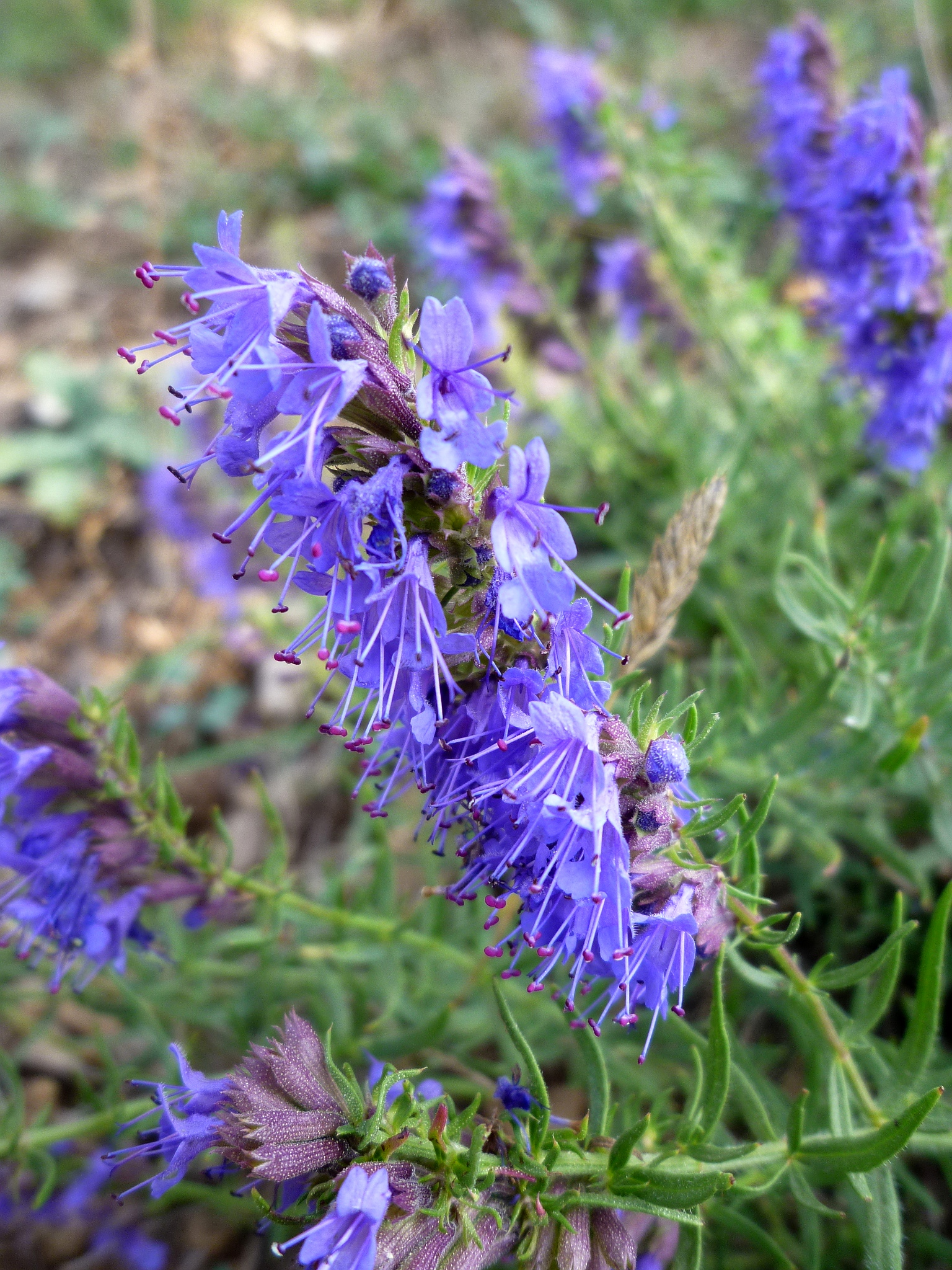 Hyssopus officinalis. In Guixers (Solsonès-Catalunya). To 1205 m. altitude